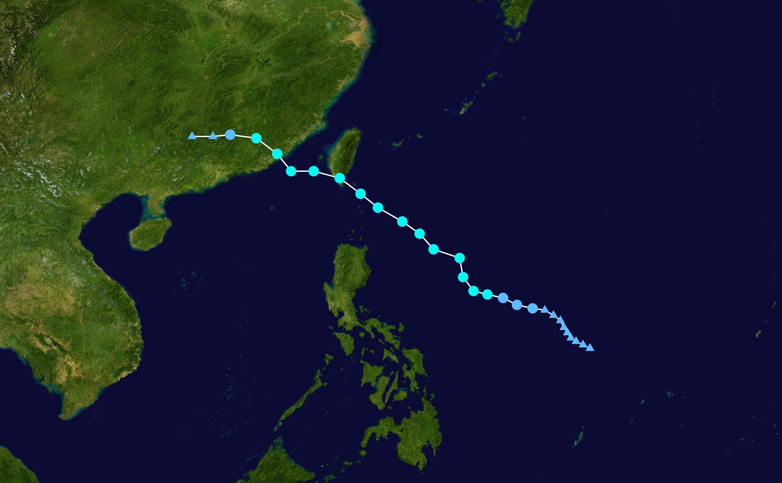 Track map of Severe Tropical Storm Bailu of the 2019 Pacific typhoon season. The points show the location of the storm at 6-hour intervals. The colour represents the storm's maximum sustained wind speeds as classified in the Saffir–Simpson scale (see below), and the shape of the data points represent the nature of the storm, according to the legend below. Saffir–Simpson scale Tropical depression≤38 mph≤62 km/h Category 3111–129 mph178–208 km/h Tropical storm39–73 mph63–118 km/h Category 4130–156 mph209–251 km/h Category 174–95 mph119–153 km/h Category 5≥157 mph≥252 km/h Category 296–110 mph154–177 km/h Unknown Storm type Tropical cyclone Subtropical cyclone Extratropical cyclone / Remnant low / Tropical disturbance / Monsoon depression